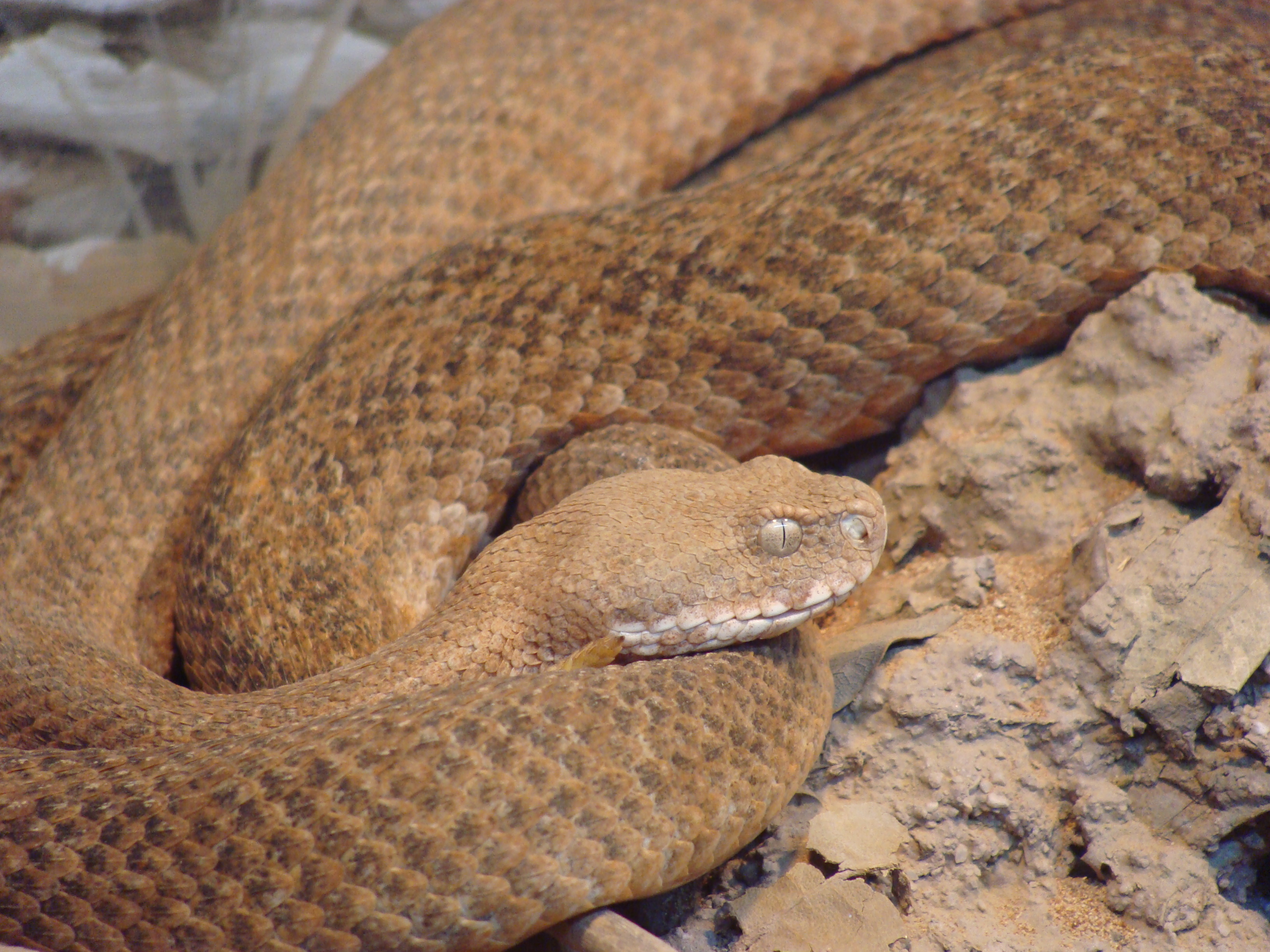 Macrovipera schweizeri in NHMC, Heraklion.